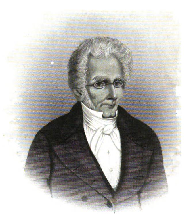 Image of Nicaraguan M. Larreynaga